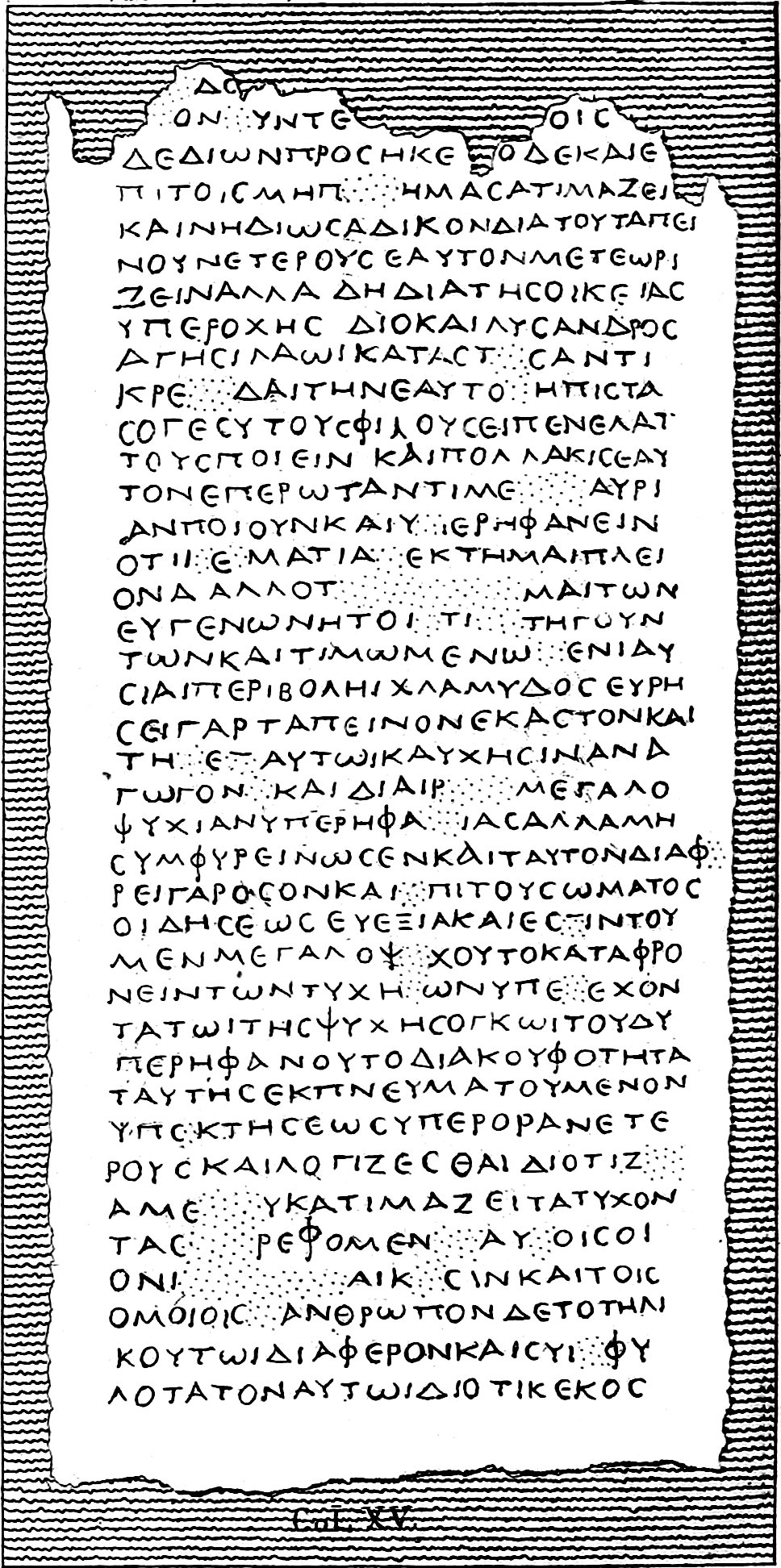 Image from book: Tesoro letterario di Ercolano, ossia, la reale officina dei papiri ercolanesi, Stamperia e cartiere del Fibreno, Naples, 1858.